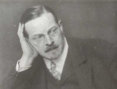 Portrait photograph of Ernst Theodor von Brücke, Austrian physician and physiologist